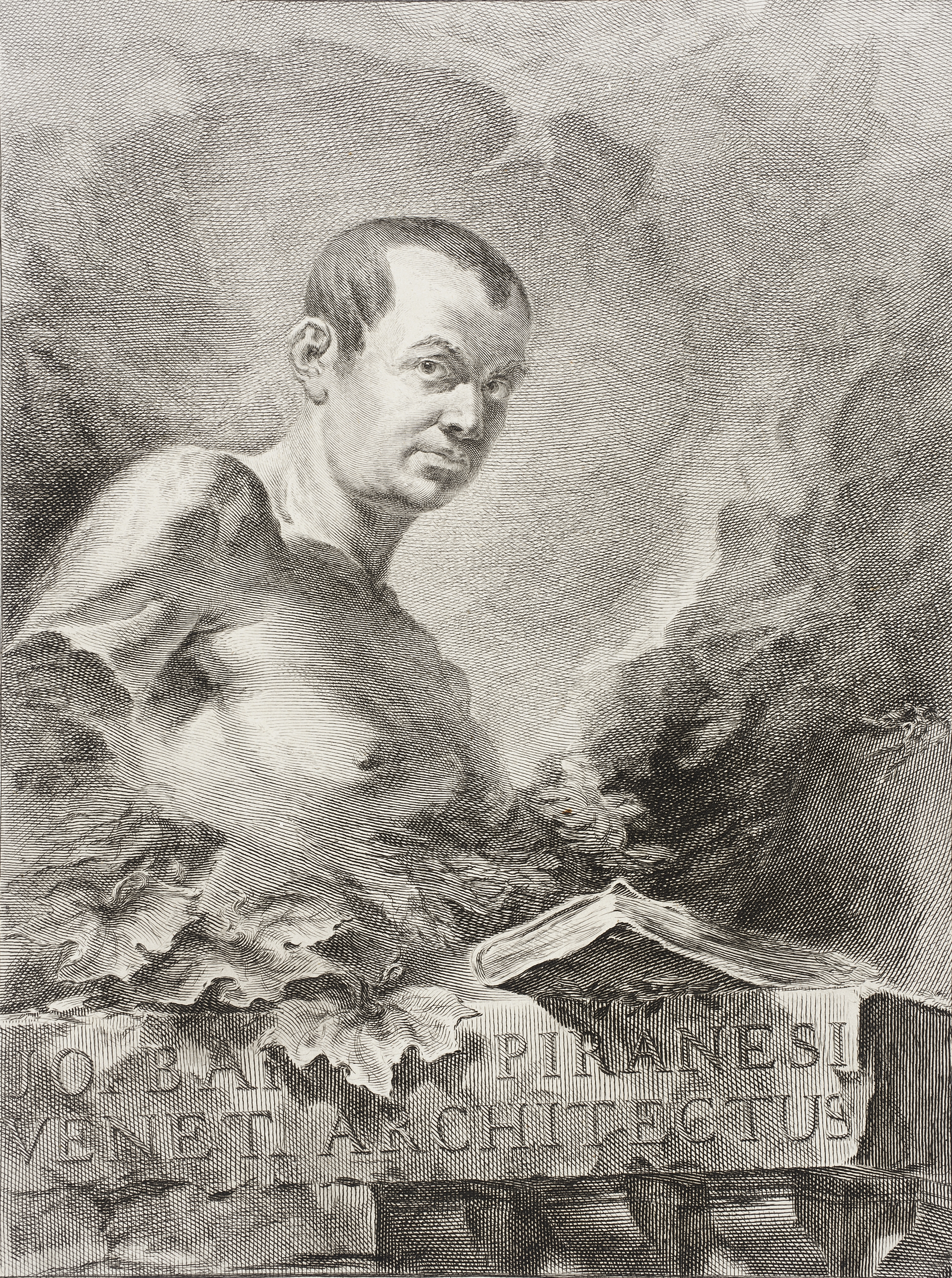 Frontispiece in the 1st edition of Piranesi's Le antichità Romane, 1756.